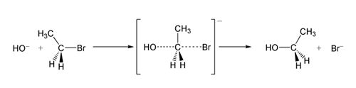 Modified in Photoshop Elements from Image:BromoethaneSN2reaction.png by User:Walkerma (who released it into the public domain). Benjah-bmm27 22:37, 26 February 2006 (UTC)